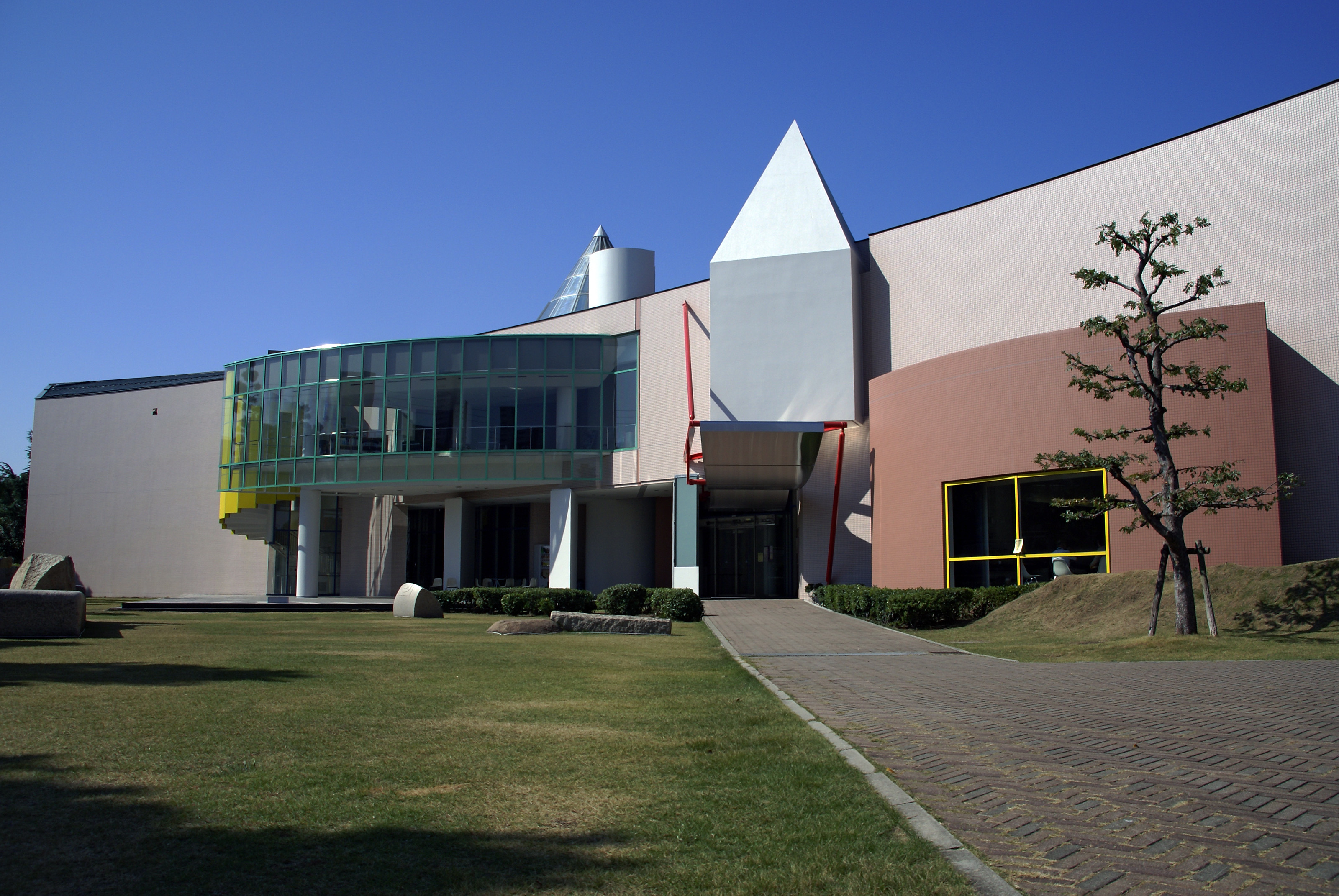 Ashiya City Museum of Art & History in Ashiya, Hyogo prefecture, Japan